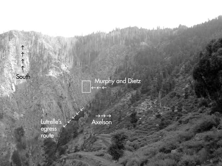 aerial_ map